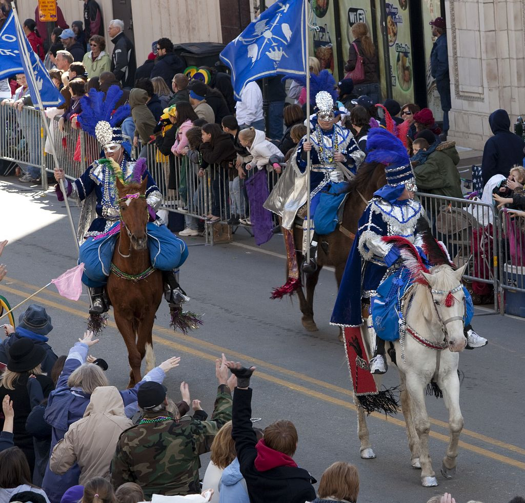 Mardi Gras, Mobile, Alabama.